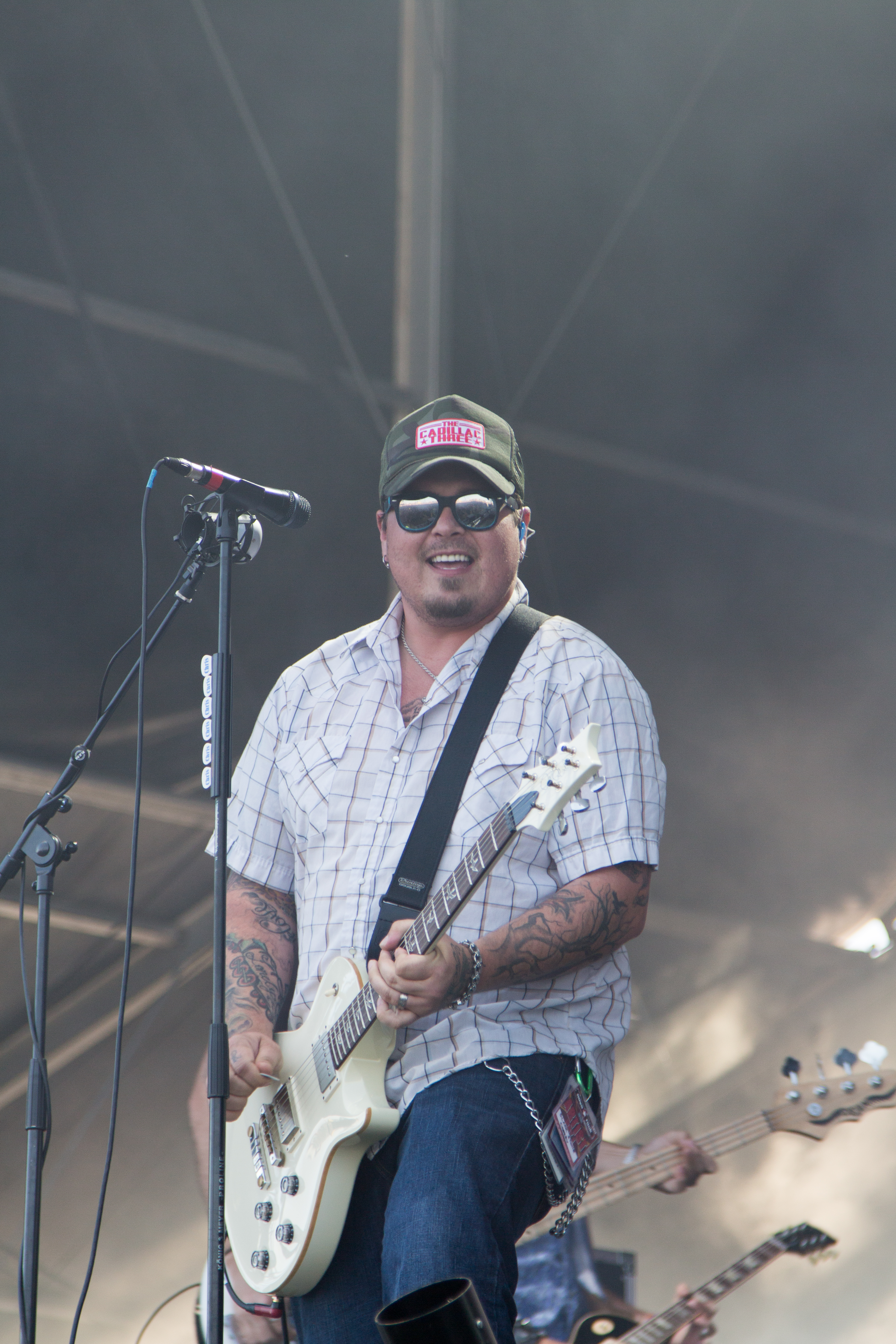 Chris Robertson from Black Stone Cherry at Nova Rock 2014